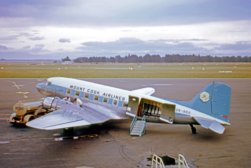 Douglas C-47A Skytrain ZK-BEU of Mount Cook Airline at Christchurch Airport in 1971.